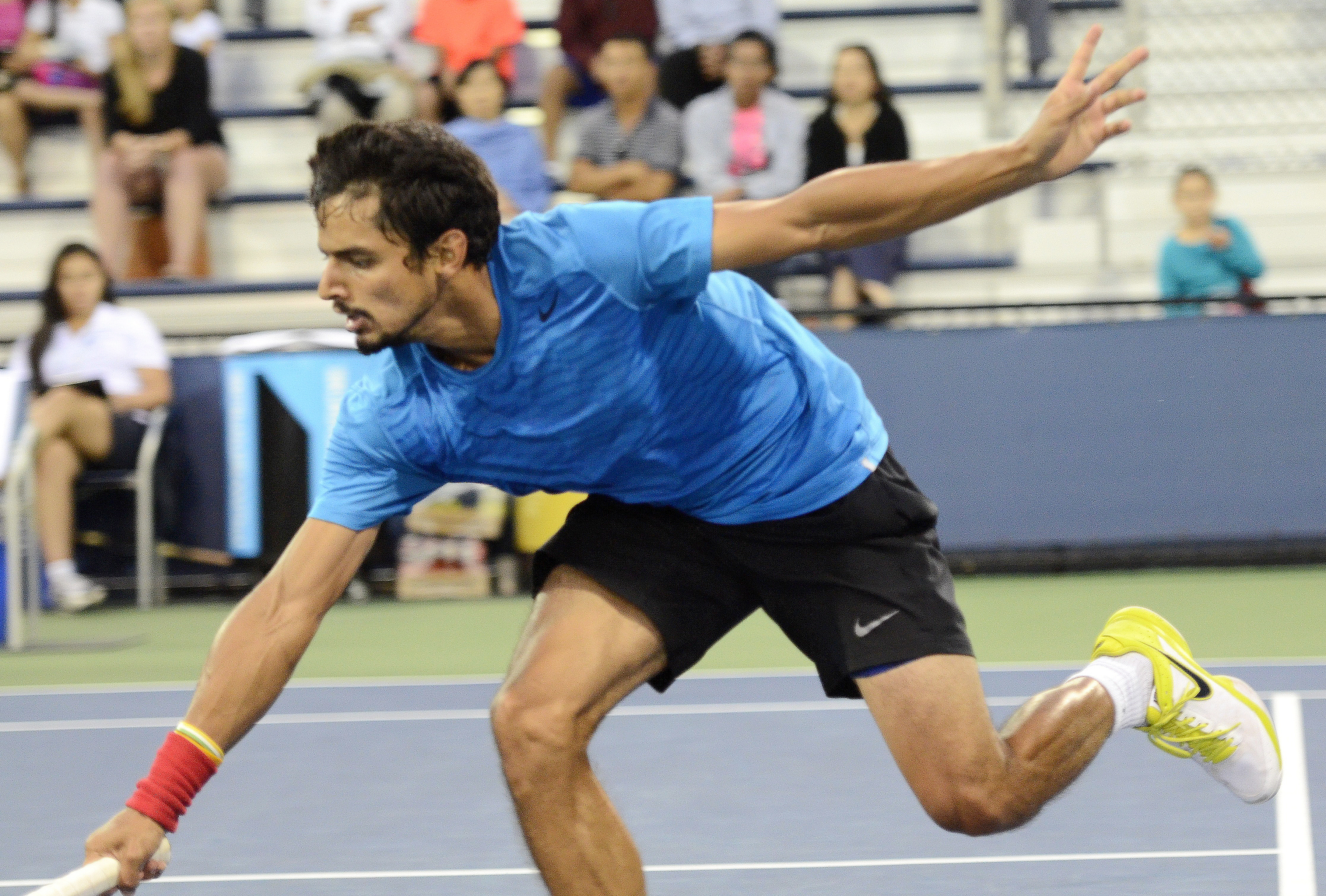 August 21, 2014 Queens, NY Andreas Beck (GER) def. Sanam Singh (IND) This photo is from two days I went to the qualifying rounds ("the Qualies") for the US Open tennis tournament. There are hundreds more photos to come. (8/23/14)